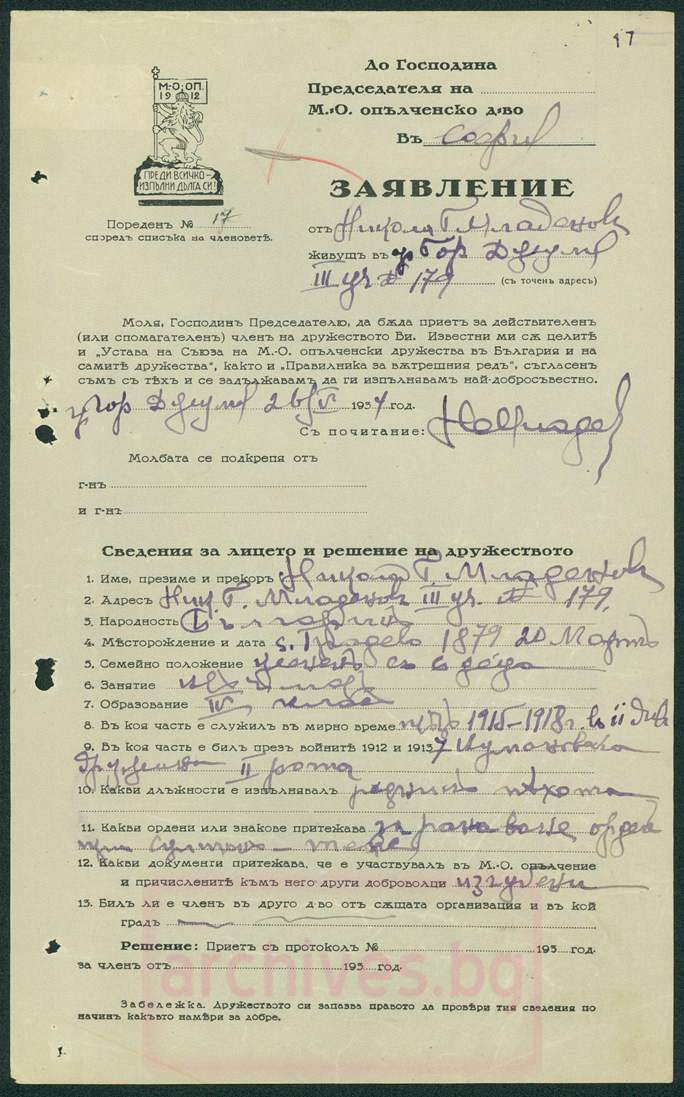 Nikola Mladenov's Document